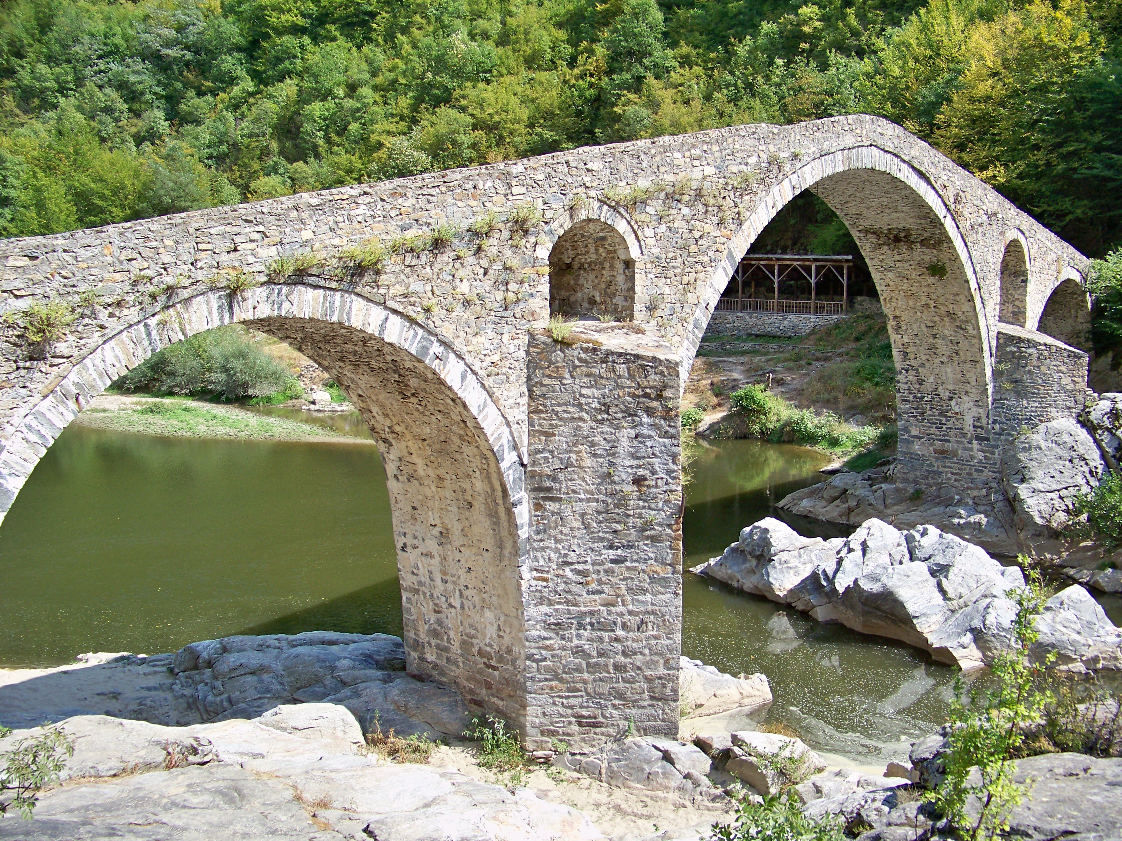 The Dyavolski most (Bulgarian: Дяволски мост, "Devil's Bridge"; Turkish: Şeytan Köprüsü) is an arch bridge over the Arda River situated in a narrow gorge.